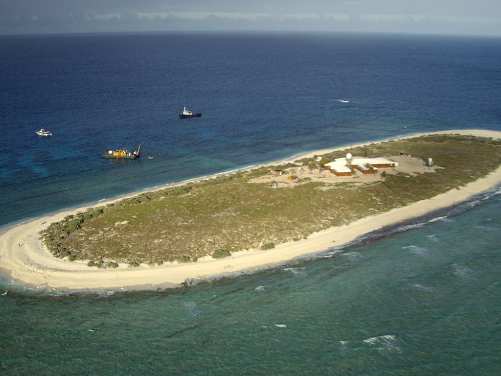 Aerial Photo of Willis Island during Bureau of Meteorology re-development of weather observations facilities 2006.